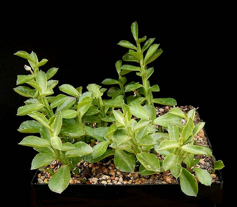 Euphorbia rhizophora